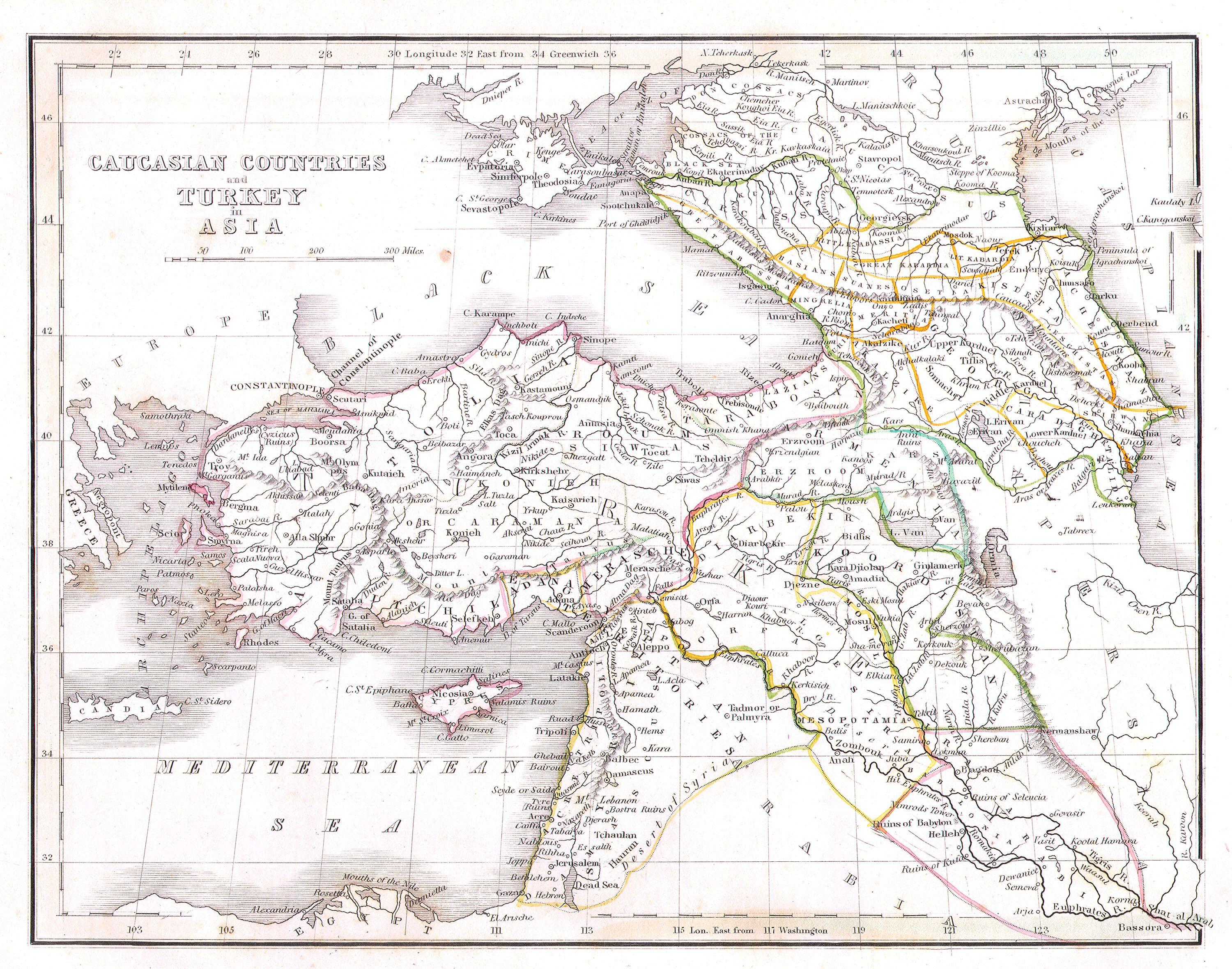 This unusual map depicts the Asian portions of Turkey, the Black Sea, the Caucuses (Georgia, Azerbaijan, and Armenia), and what is today Israel/Palestine, Jordan, Syria, Lebanon, and Iraq.